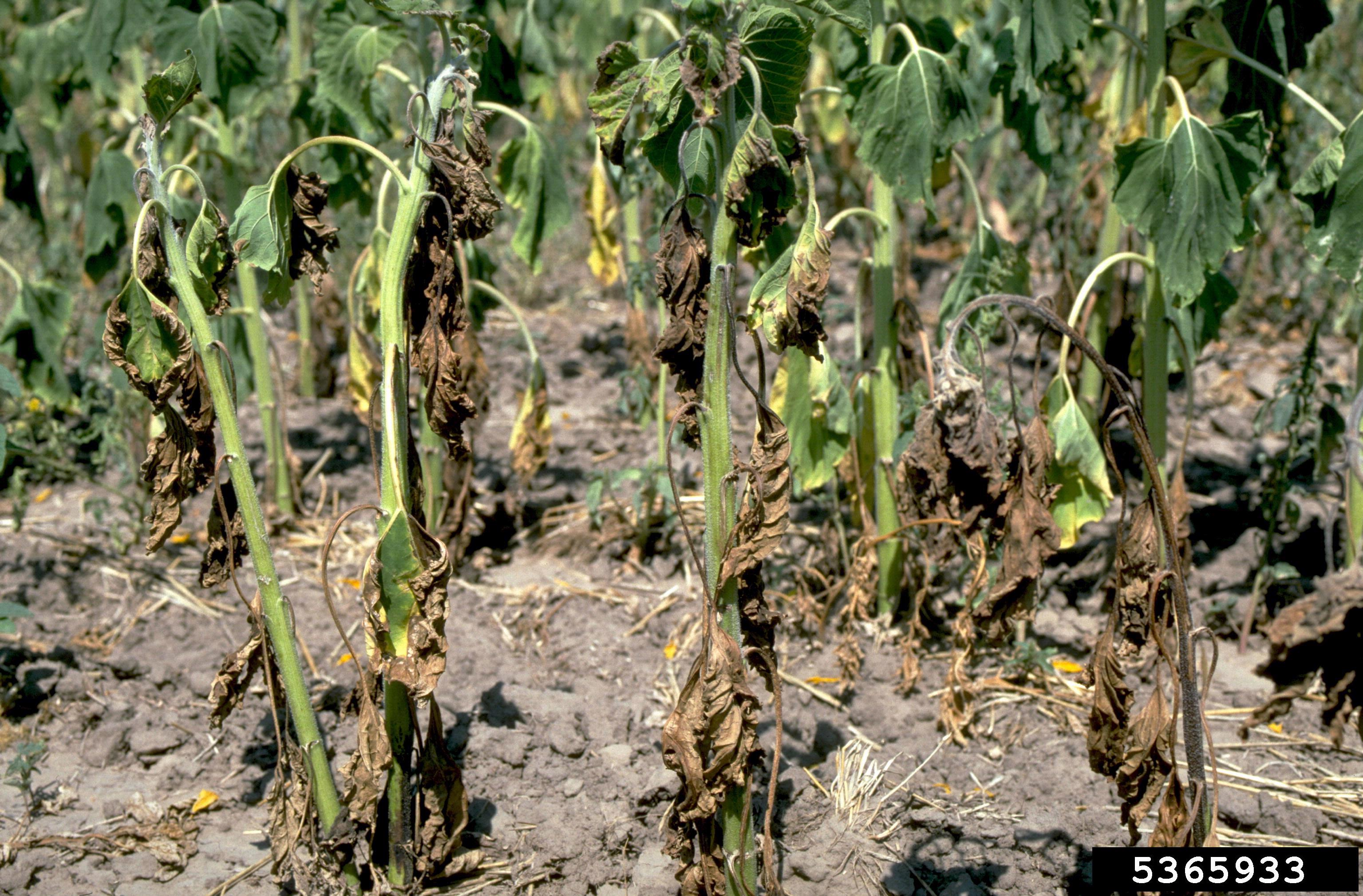 Sunflower plants showing symptoms of Verticillium wilt infection caused by Verticillium dahliae in the field.